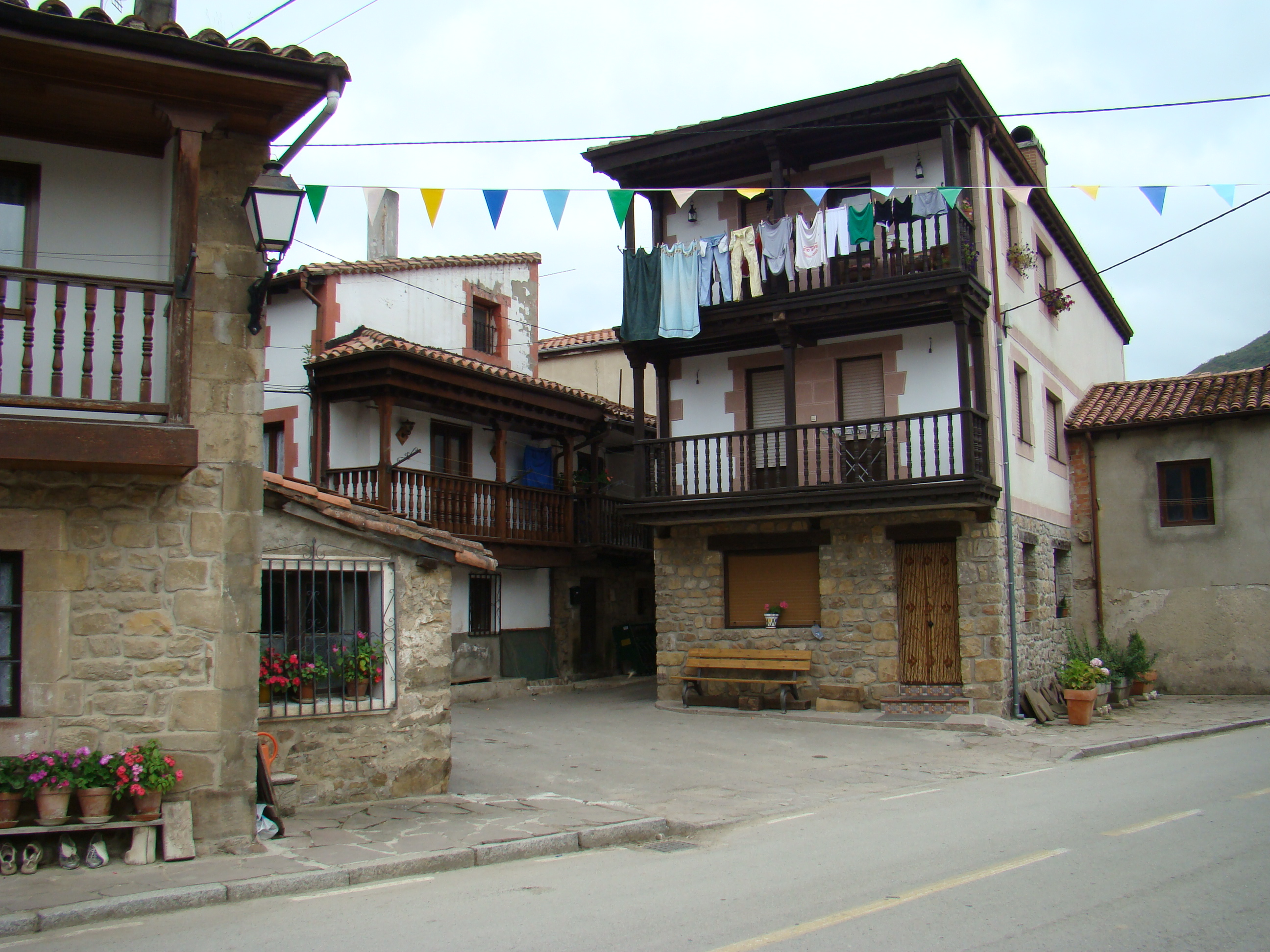 Popular architecture in Cosío, Cantabria (Spain)